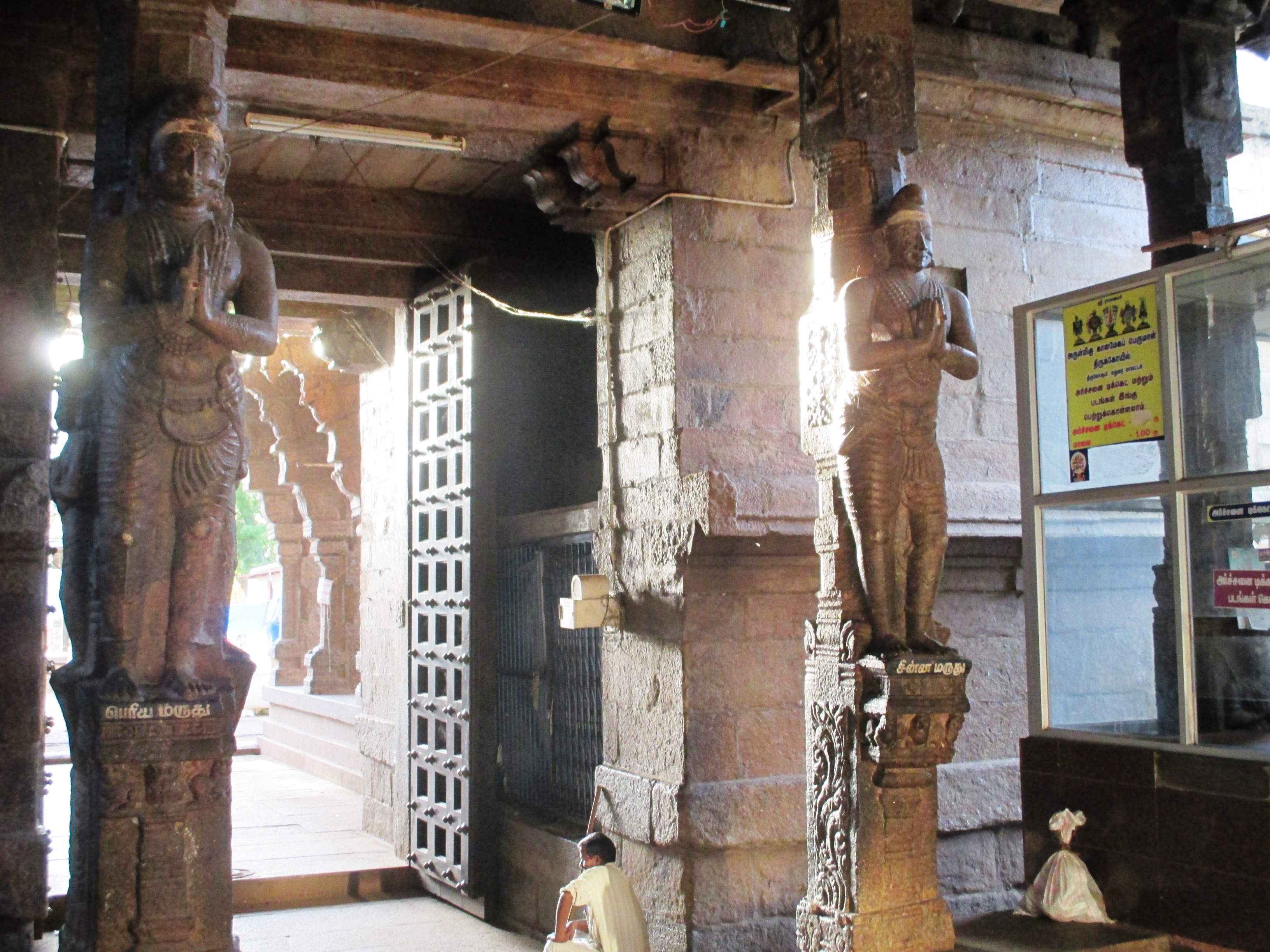 Kalamegaperumal Temple,Tirumohur